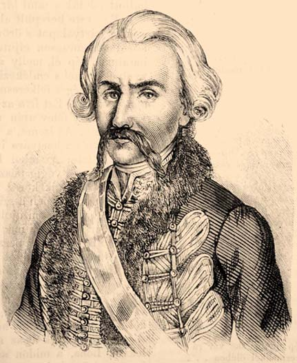 Portrait of Ferenc Nádasdy